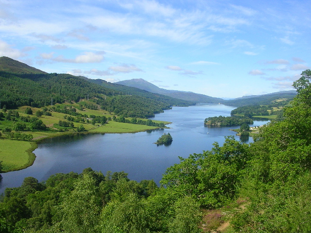 The 'Queen's View', Loch Tummel.